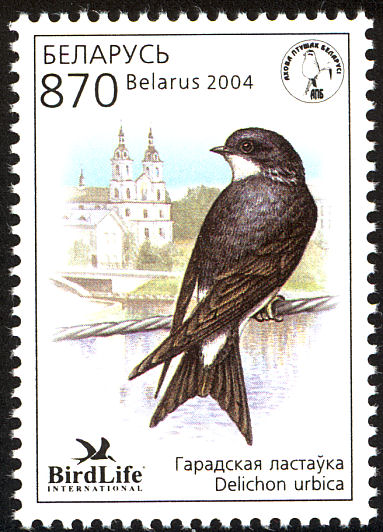 Stamp of Belorussia, House Martin (Delichon urbicum), 2004, 870 rubles